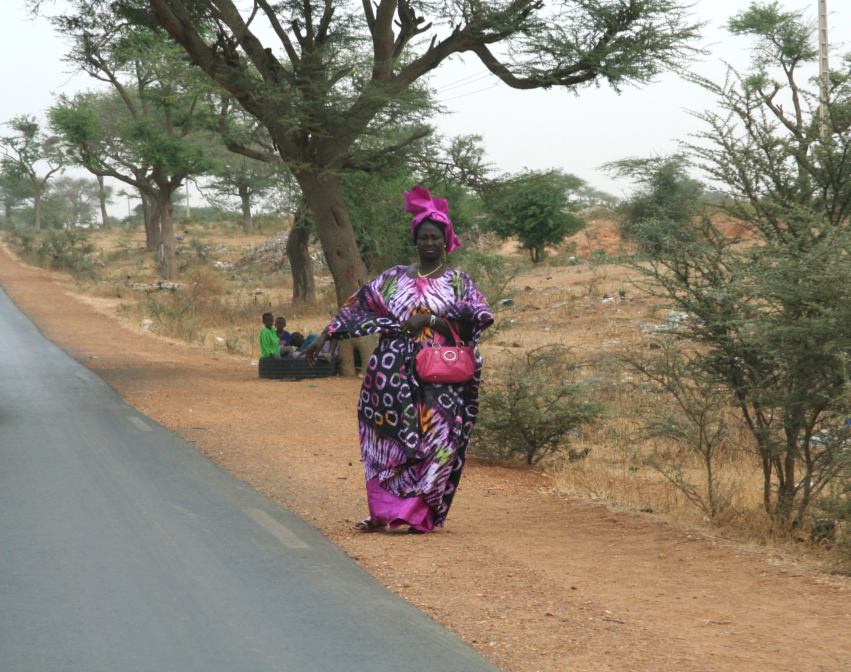 This is an image with the theme "Africa on the Move or Transport" from: Senegal